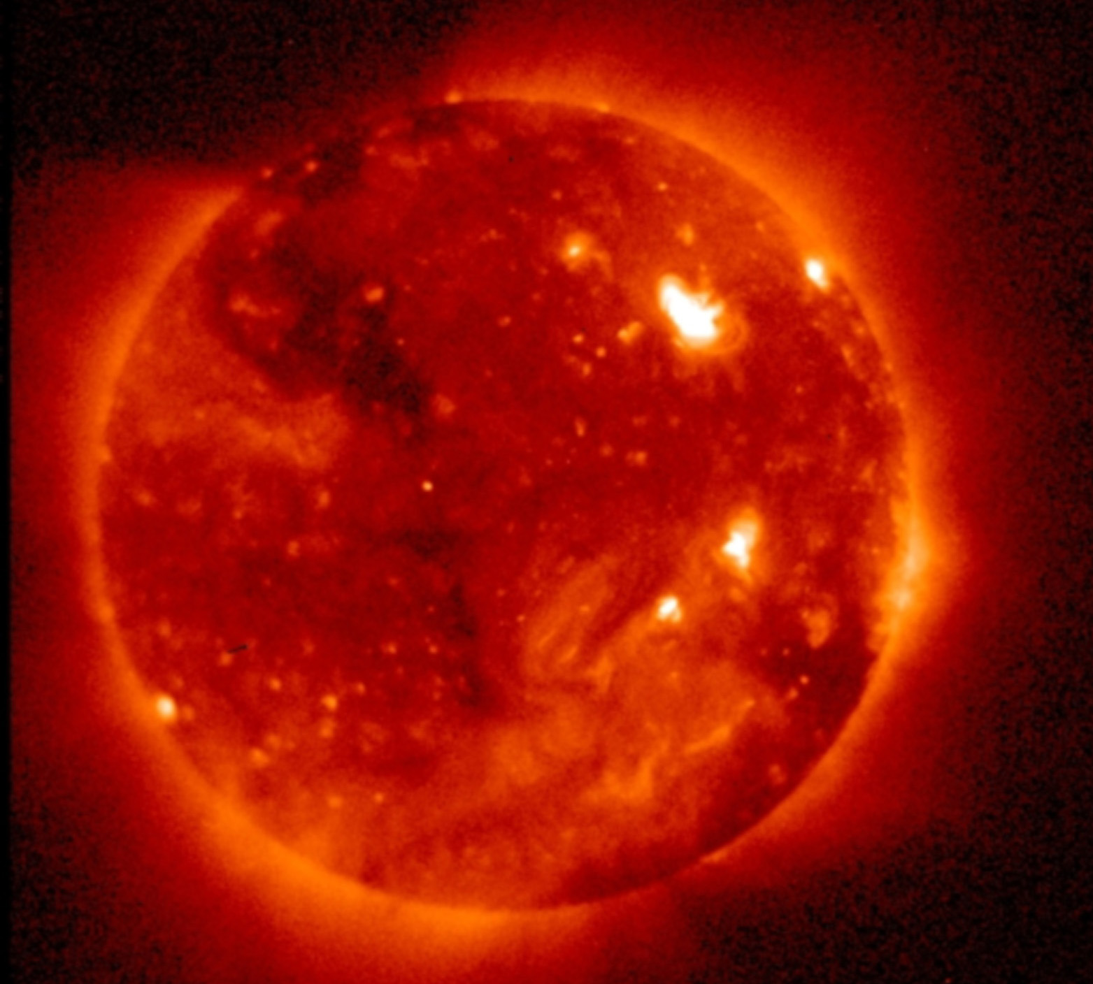 Image of the sun from the GOES-15 SXI, June 2, NASA